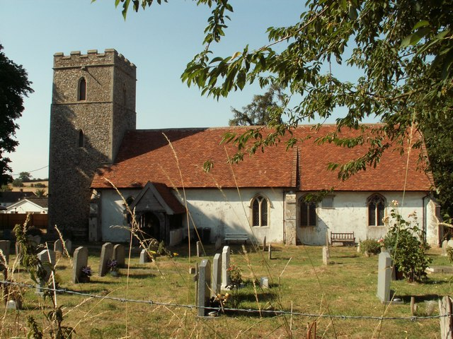 St Mary's parish church, Somersham, Suffolk, seen from the south